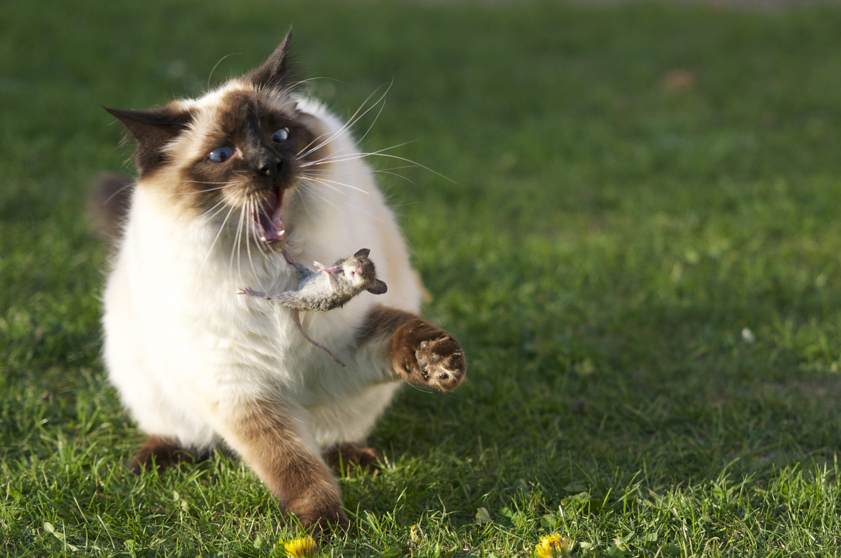 A large Ragdoll cat has caught a mouse and now victimizes it for sport before devouring it.